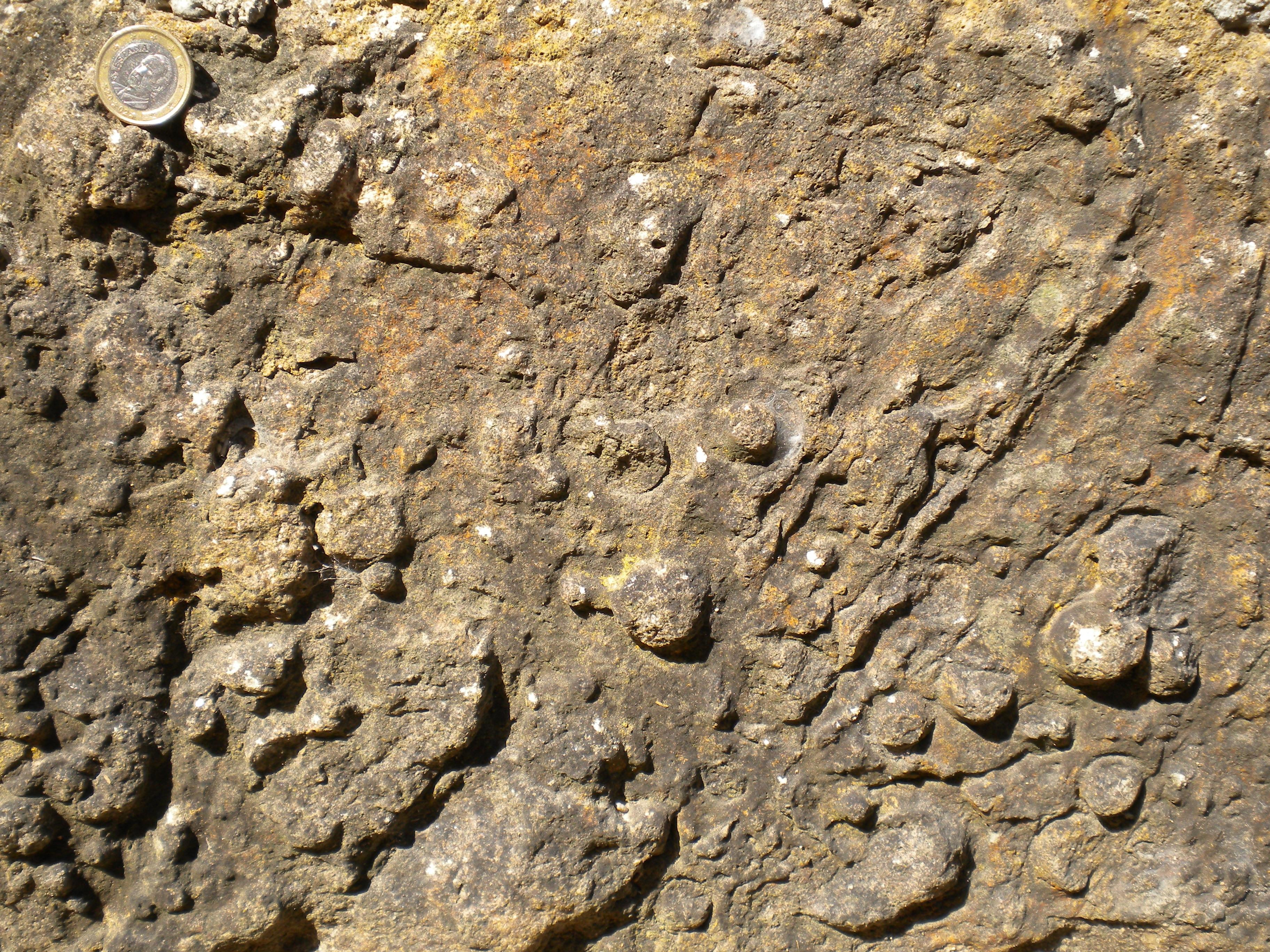 Wartlike load structure in Jurassic (Hettangian) arkoses from the northern edge of the Aquitaine Basin (near Nontron, France).